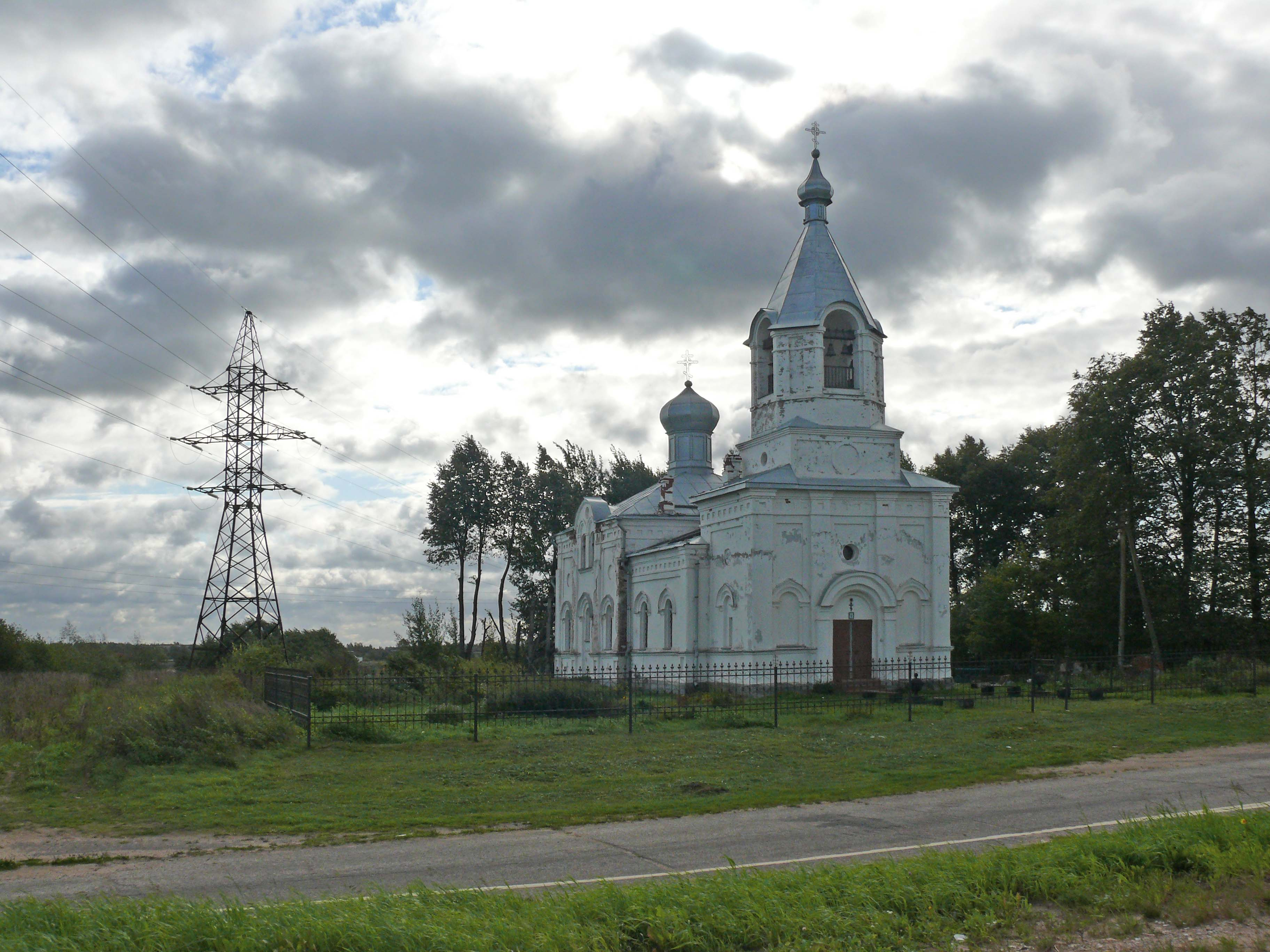 Churche of Intercession of the Theotokos in Trubichino village, Novgorodsky district, Novgorod oblast